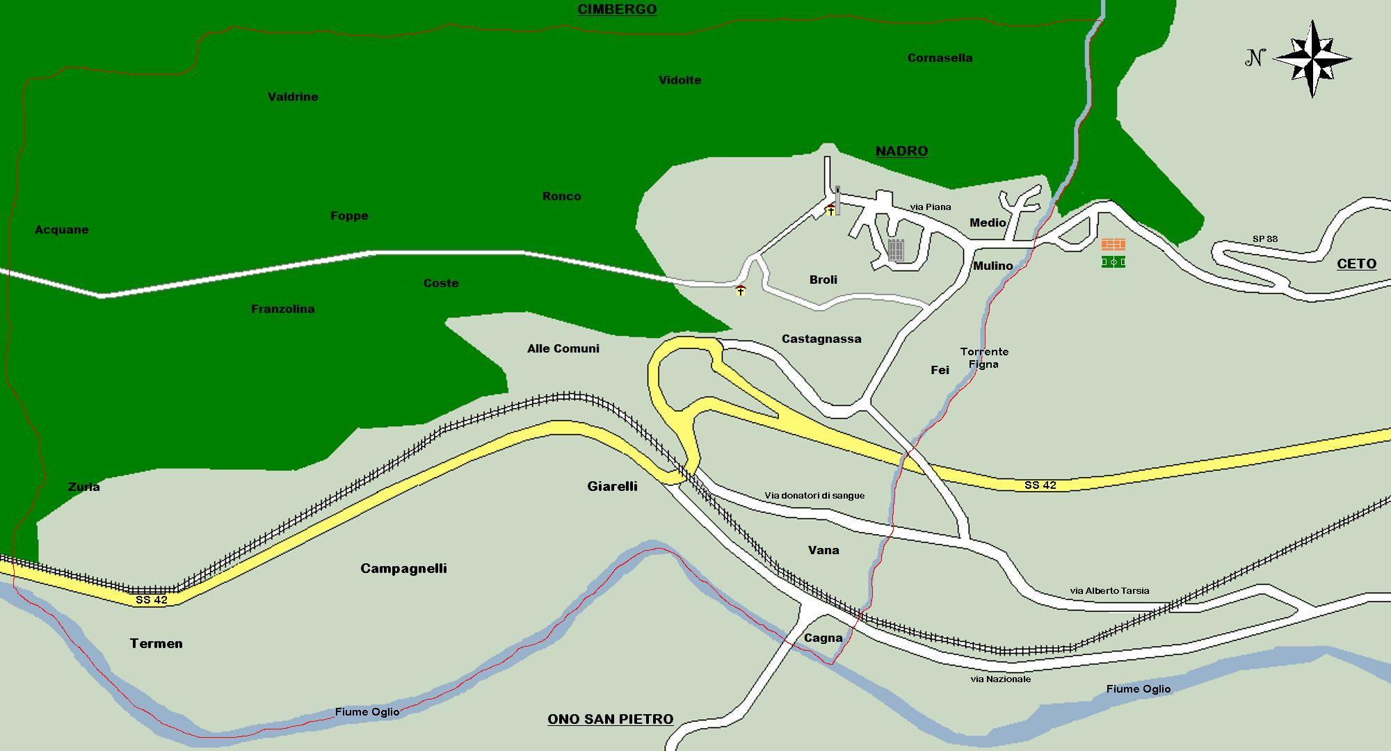 Map of Nadro's territory, Val Camonica. Toponomastic source: Catasto Lombardo Veneto 1853